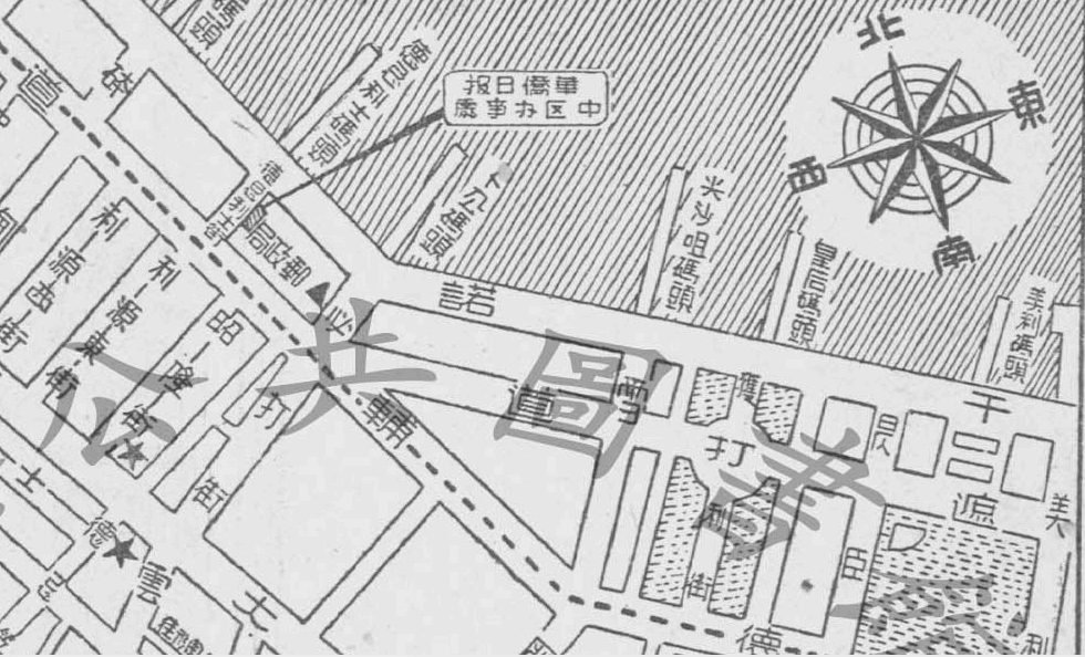 Source: MMIS (HK Government archives) scan of part of 1911 map produced by Wah Kiu Yat Po, and now out of copyright per Hong Kong Copyright Ordinance